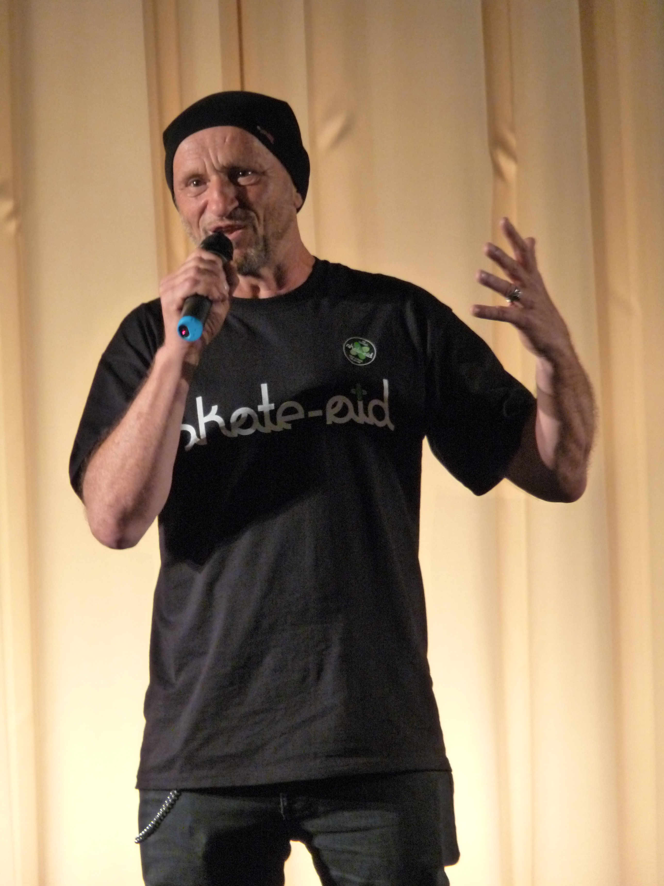 Titus Dittmann at the premiere of the movie Brett vor'm Kopp about himself in Münster, Germany